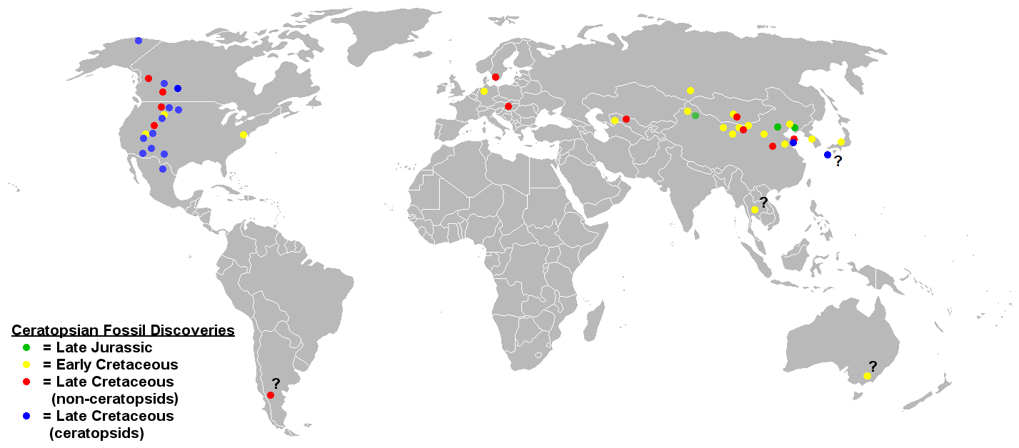 Map of ceratopsian fossil localities as of September 2006. I used the blank political map of the world commonly used on Wikipedia ((BlankMap-World.png). Keep in mind that the land masses would not have been in the same places they are today in the Jurassic and Cretaceous periods.